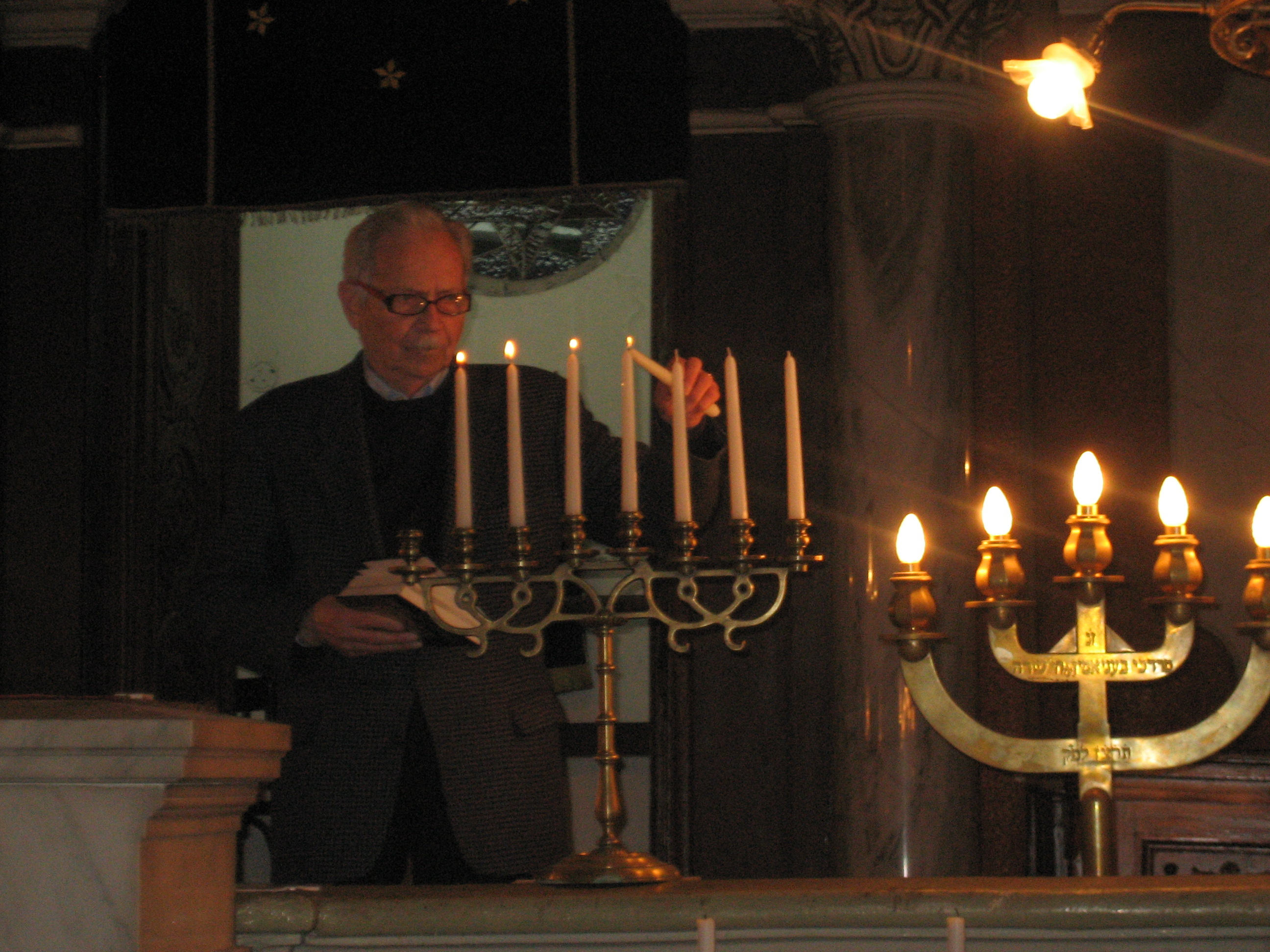 Hanukkah in the Status Quo synagogue in Târgu Mureş.